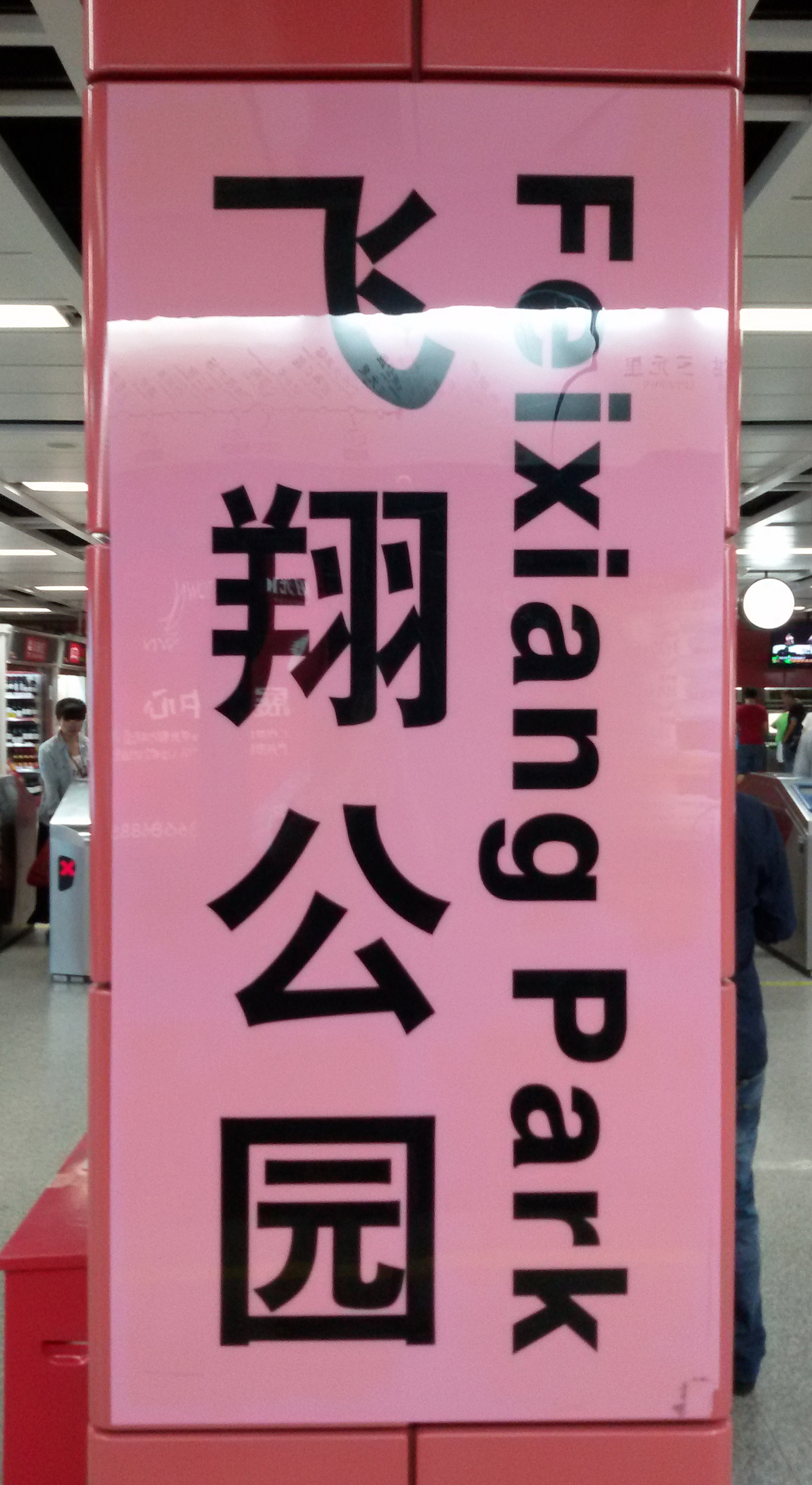 WORD on PILLAR at Feixiang Park Station in Guangzhou Metro 粵語: 飛翔公園站入面嘅柱上面啲字